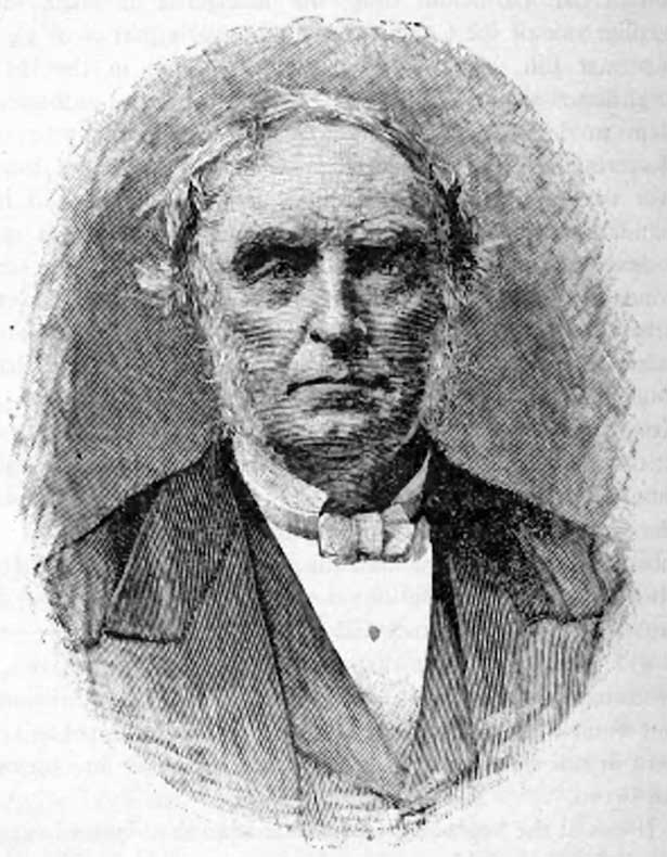 From The Story of The L.M.S. by C. Silvester Horne; London; London Missionary Society; 1904